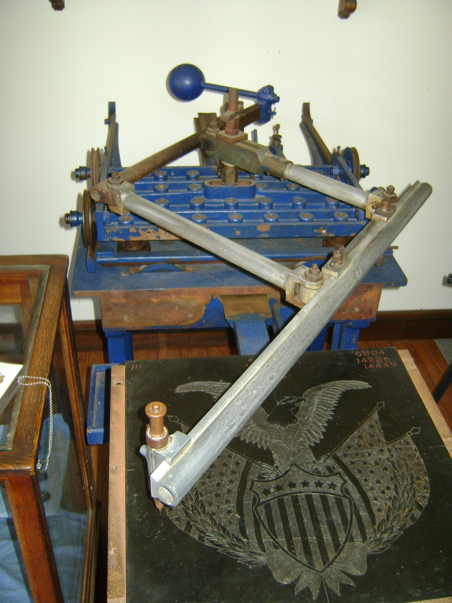 Old time Pantograph etching mechanism